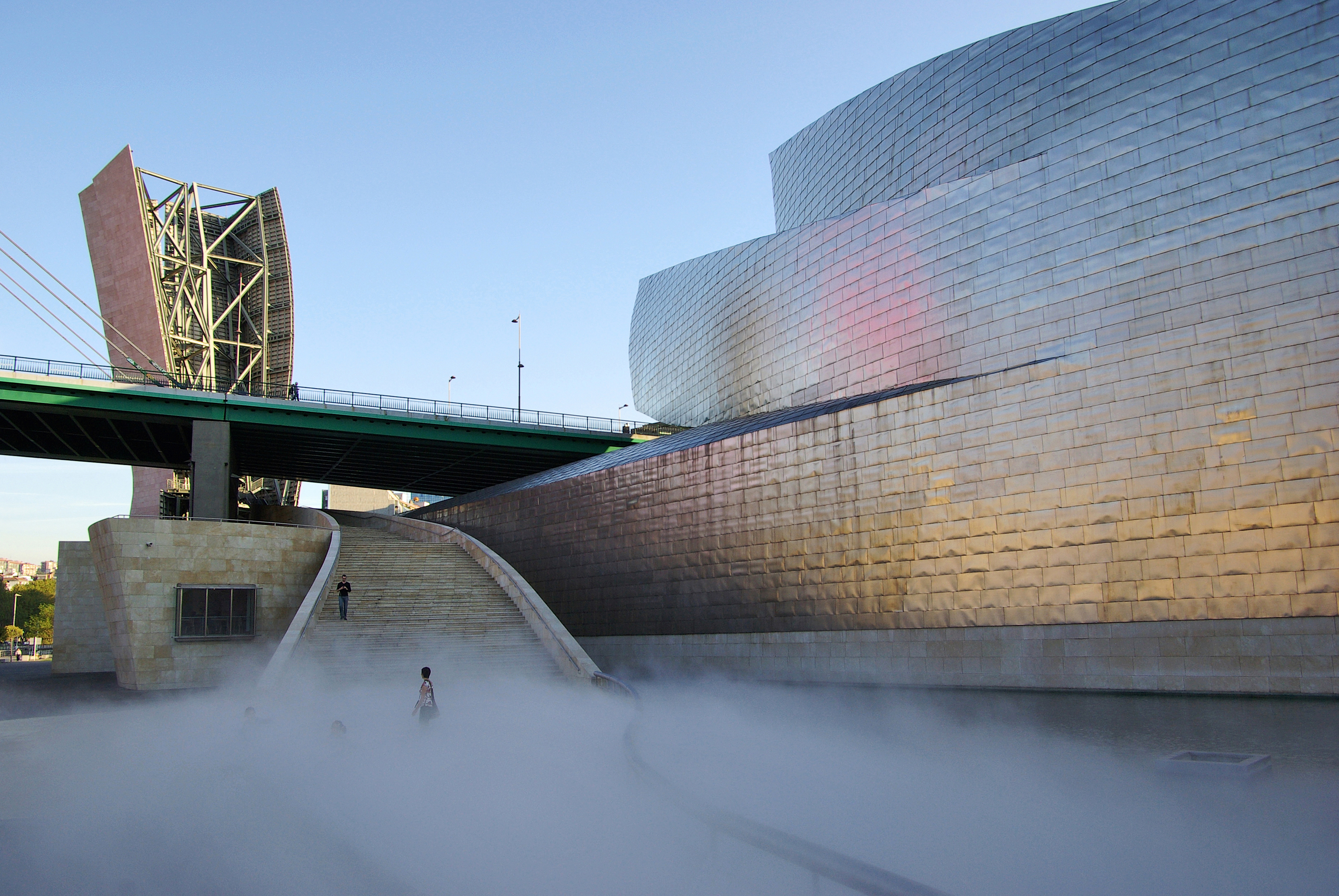 Guggenheim Museum Bilbao, Spain, with fog installation by Fujiko Nakaya and a part of the La Salve brigde. Camera: Pentax K10d